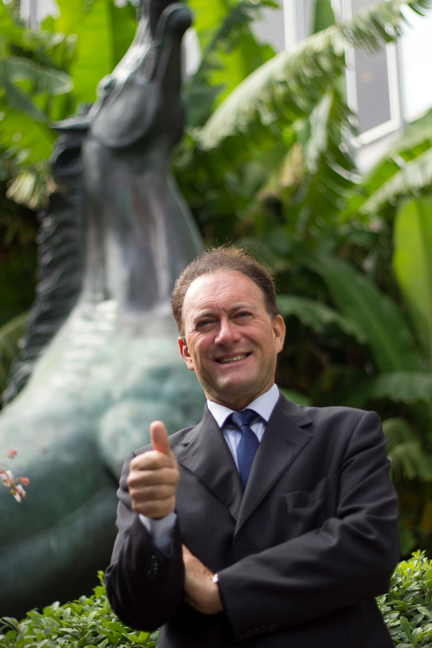 Livio Leonardi